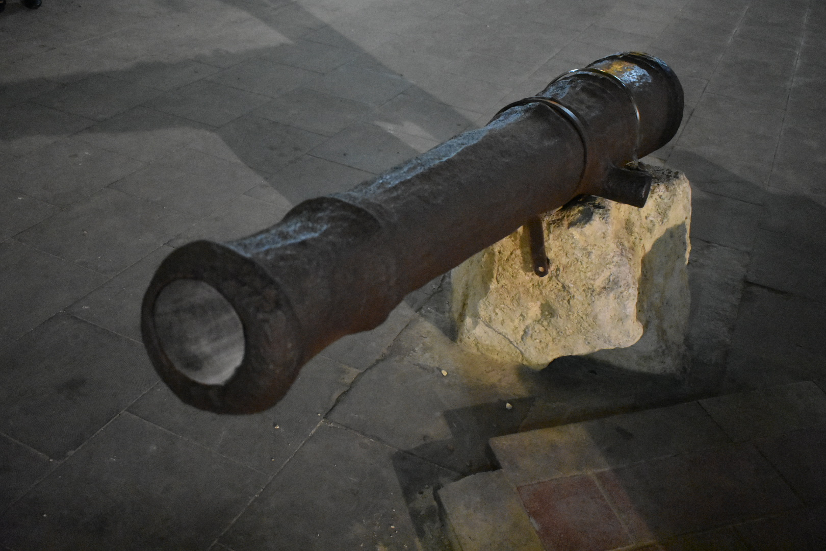 Zejtun French period remains